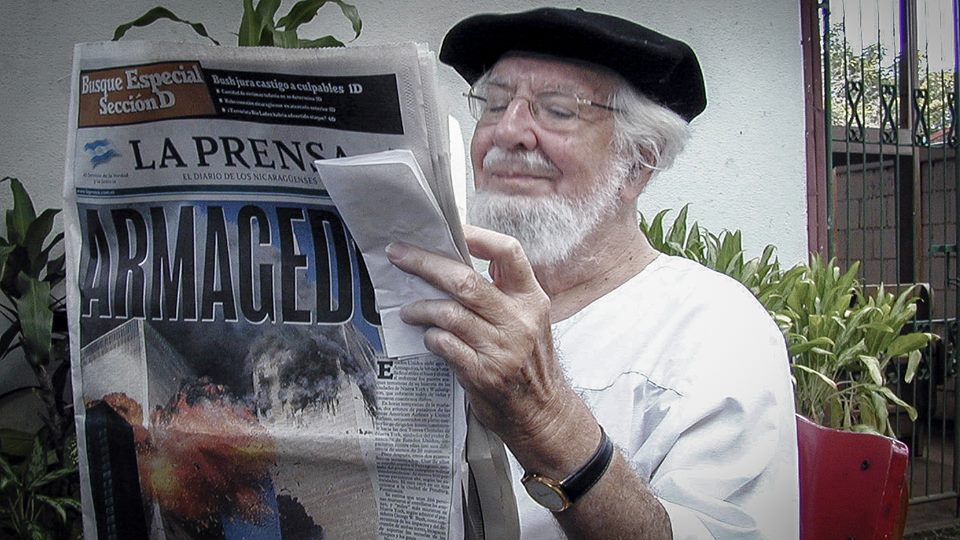 Ernesto Cardenal in Managua -the day after the attack on the World Trade Center- during the filming of “Cortázar: Apuntes para un documental” a film by Eduardo Montes-Bradley